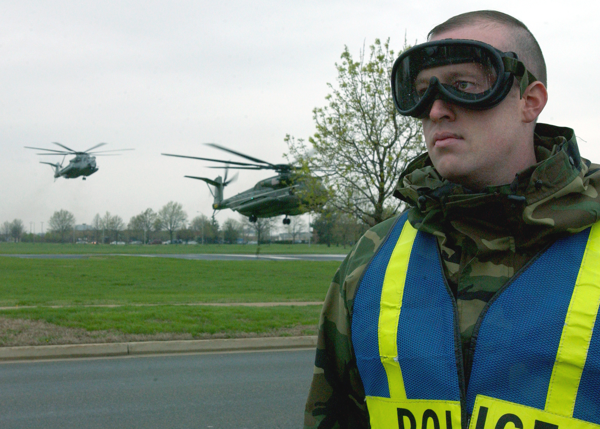 BOLLING AIR FORCE BASE, D.C. -- Wearing protective goggles to shield his eye against possible flying debris from propeller backwash, Staff Sgt. Walter Feno stands by to guide traffic April 14 as Marine helicopters land here. Sergeant Feno is assigned to the 11th Security Forces Squadron.